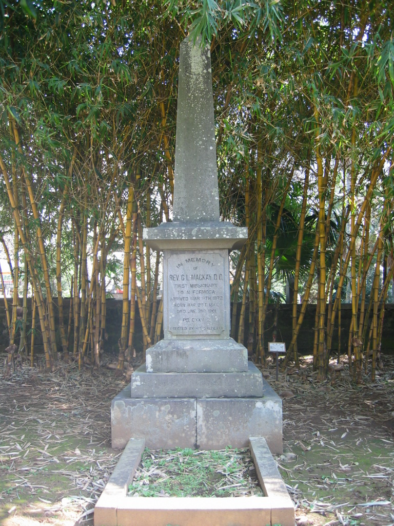 A monument to George Leslie Mackay in Tamkang High School.